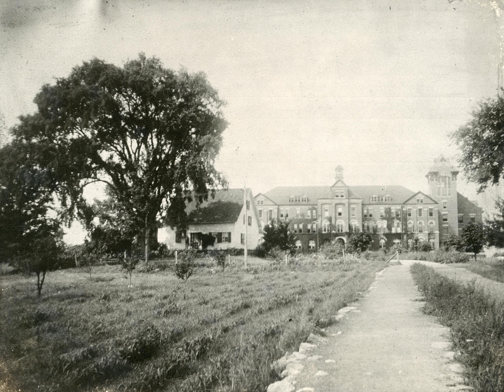 The Eaton House and the Saint Anselm College Building